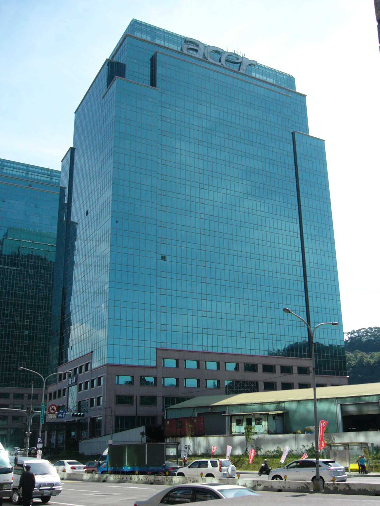 The exterior of the Acer headquarters, Xizhi District, New Taipei City - 8F, 88, Sec.1, Xintai 5th Rd. Xizhi, New Taipei City 221, Taiwan